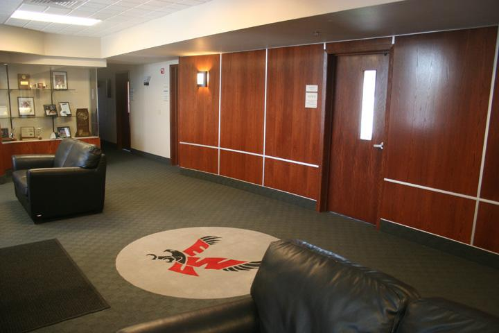 ewu football